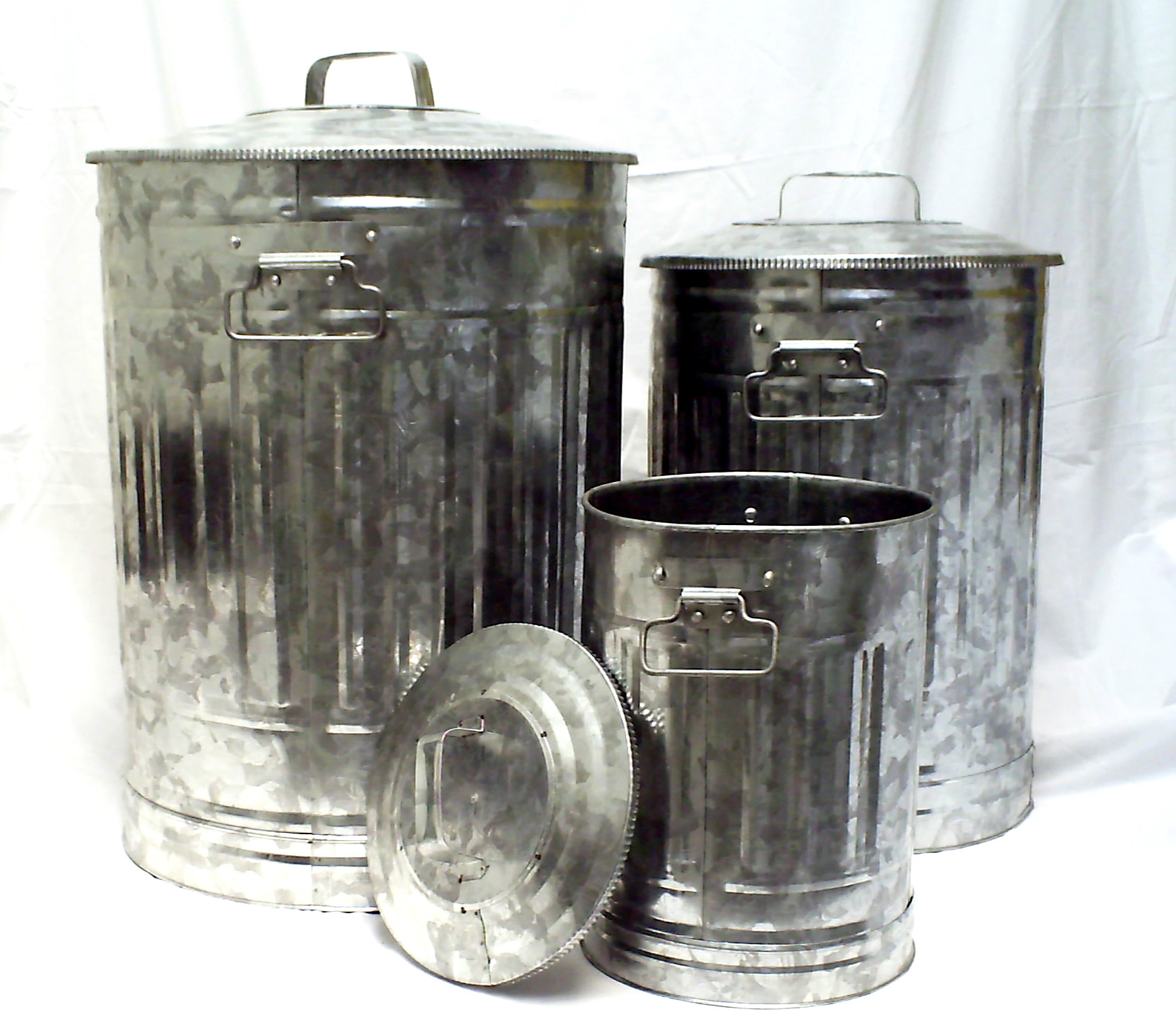 vintage american trashcan made in brazil